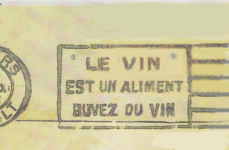 cancelation from France